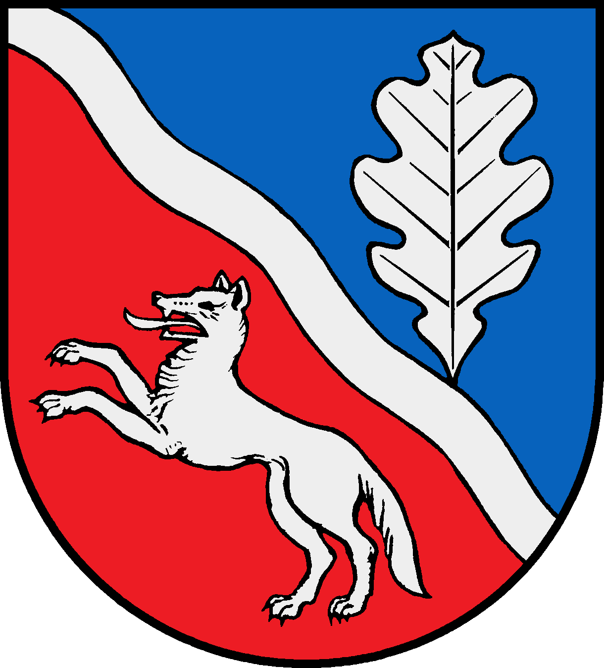 Coat of arms of the municipality Dobersdorf in Schleswig-Holstein, Germany.